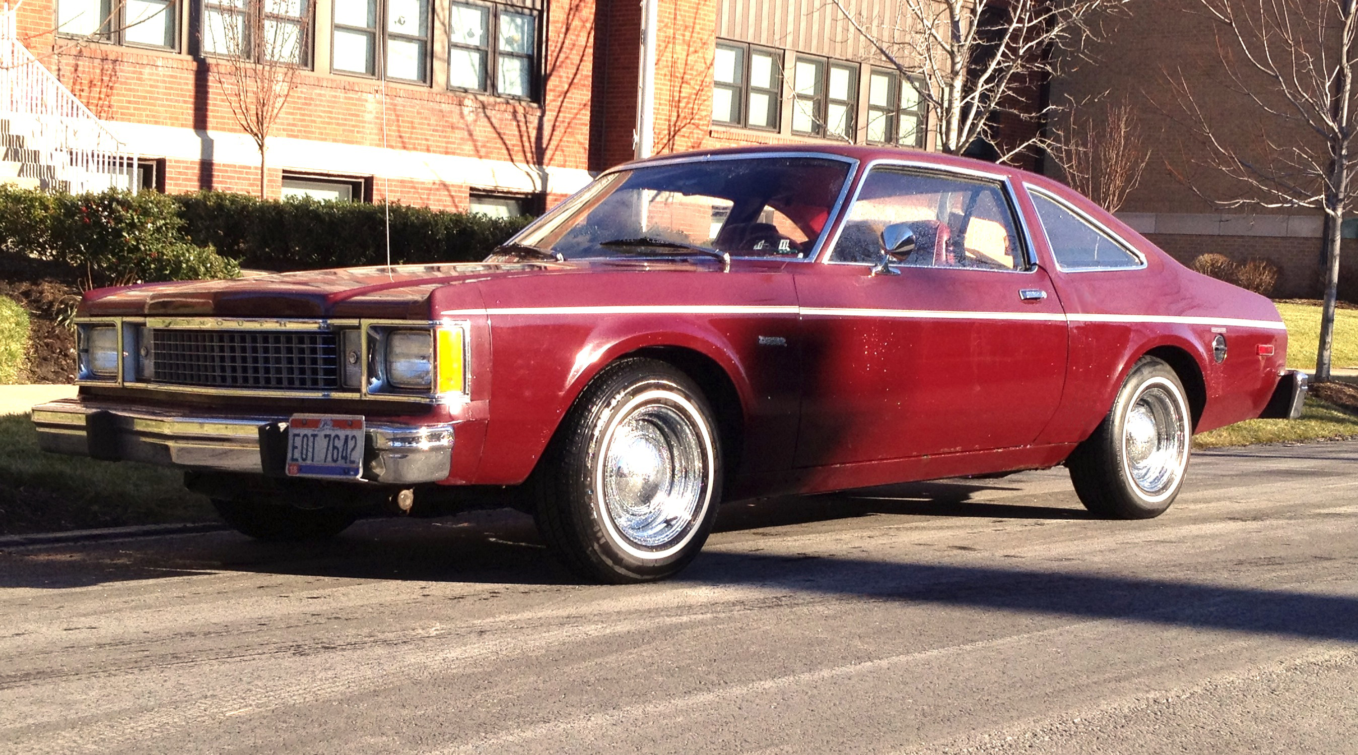 1980 Plymouth Volare with the optional Duster trim package that included Duster badges, a white stripe along the body and cloth-and-vinyl plaid bucket seats.